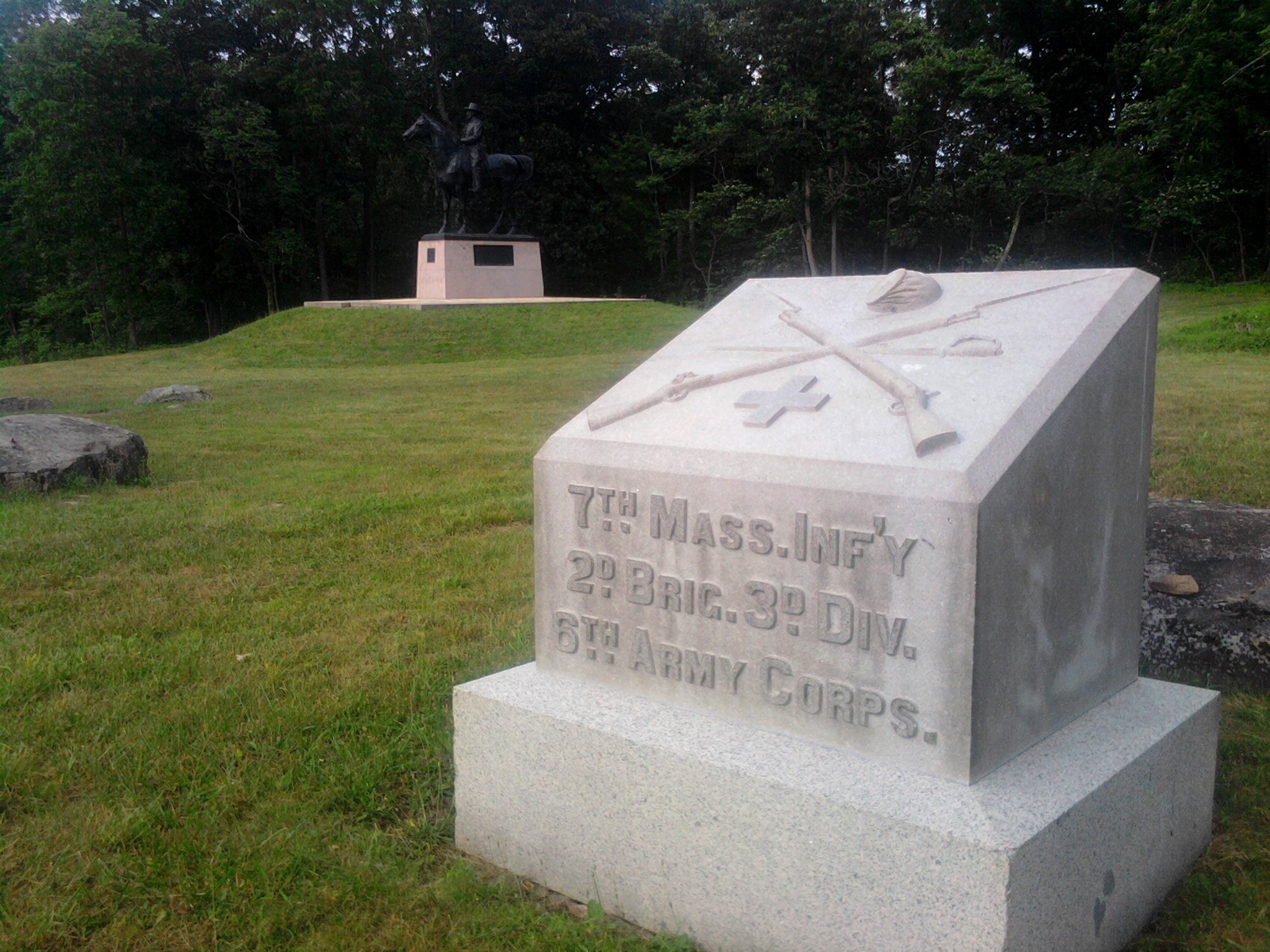 Monument to the 7th Regiment Massachusetts Volunteer Infantry on the Gettysburg Battlefield